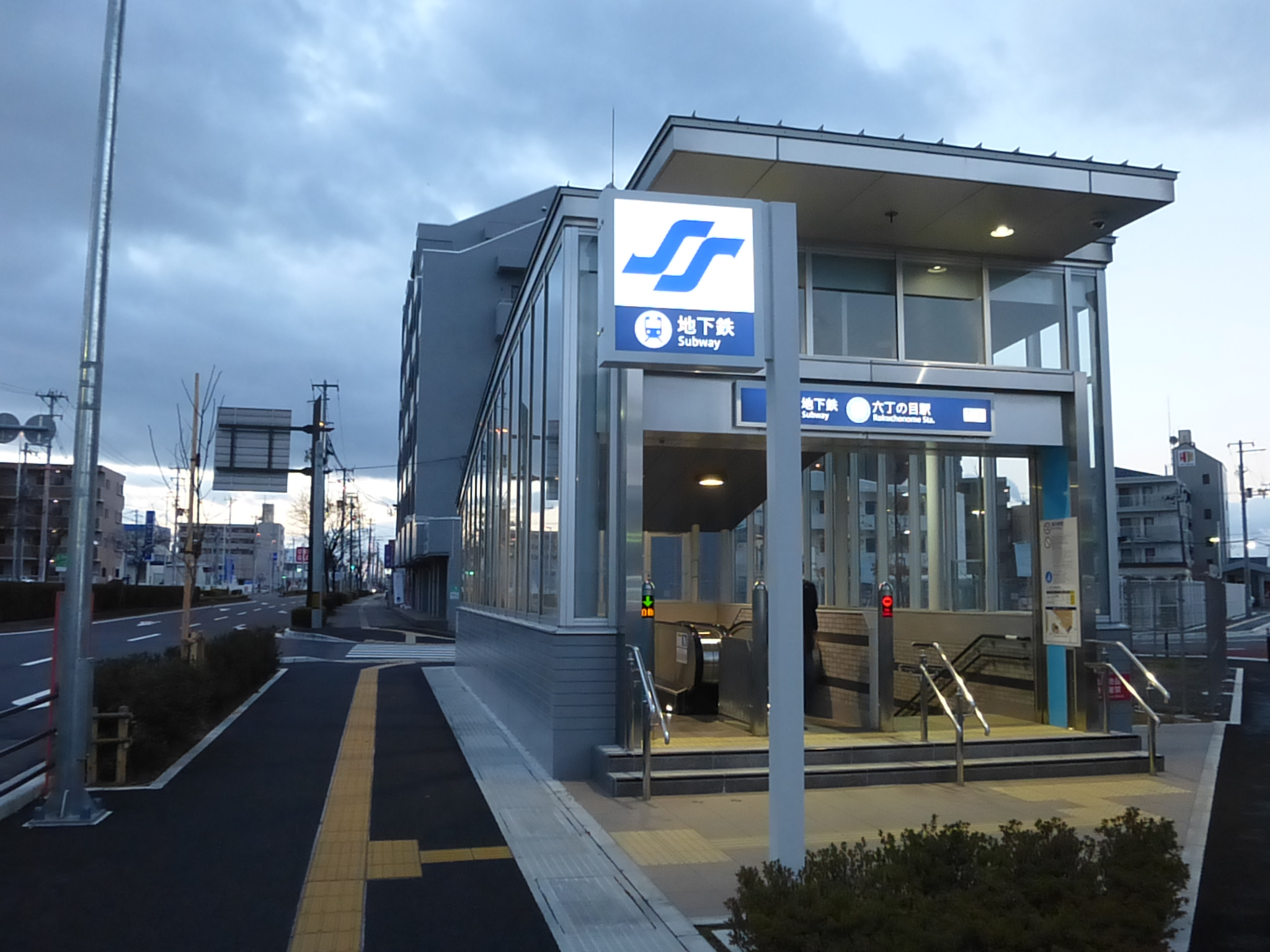 The "South 1" entrance to Rokuchonome Station on the Sendai Subway Tozai Line in Sendai, Japan